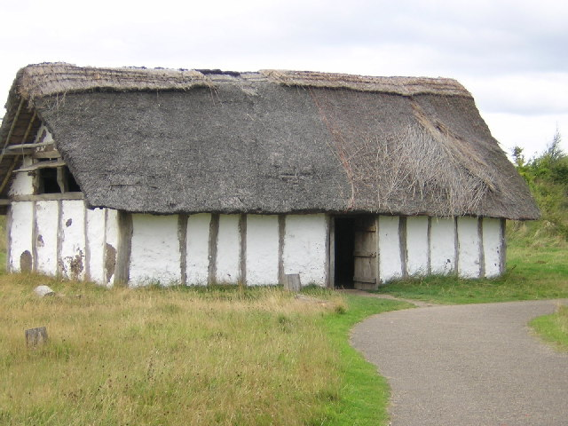 Bede's World, Jarrow, South Tyneside, Great Britain